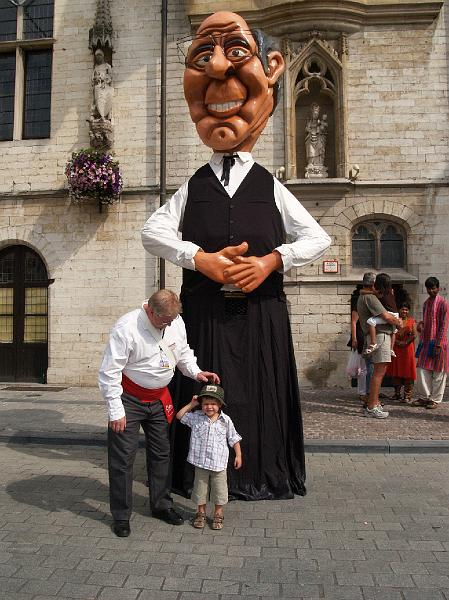 Reus Gust